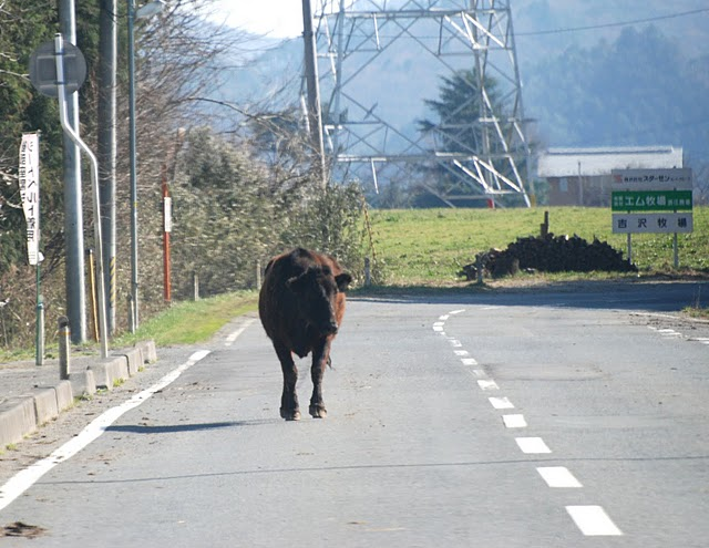 A cow ambles down a road in Namie, Namie, Fukushima Pref., Japan, April 12 2011 (VOA - S. L. Herman)